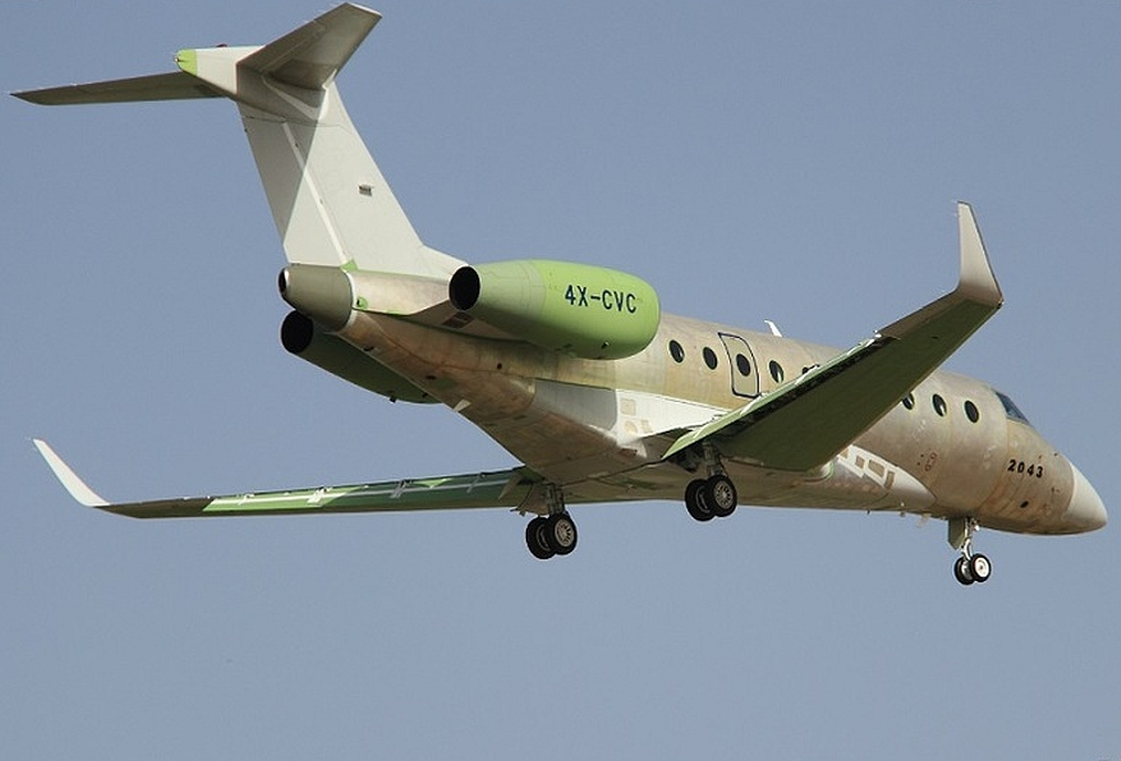 4X-CVC IAI Gulfstream at Ben Gurion Airport